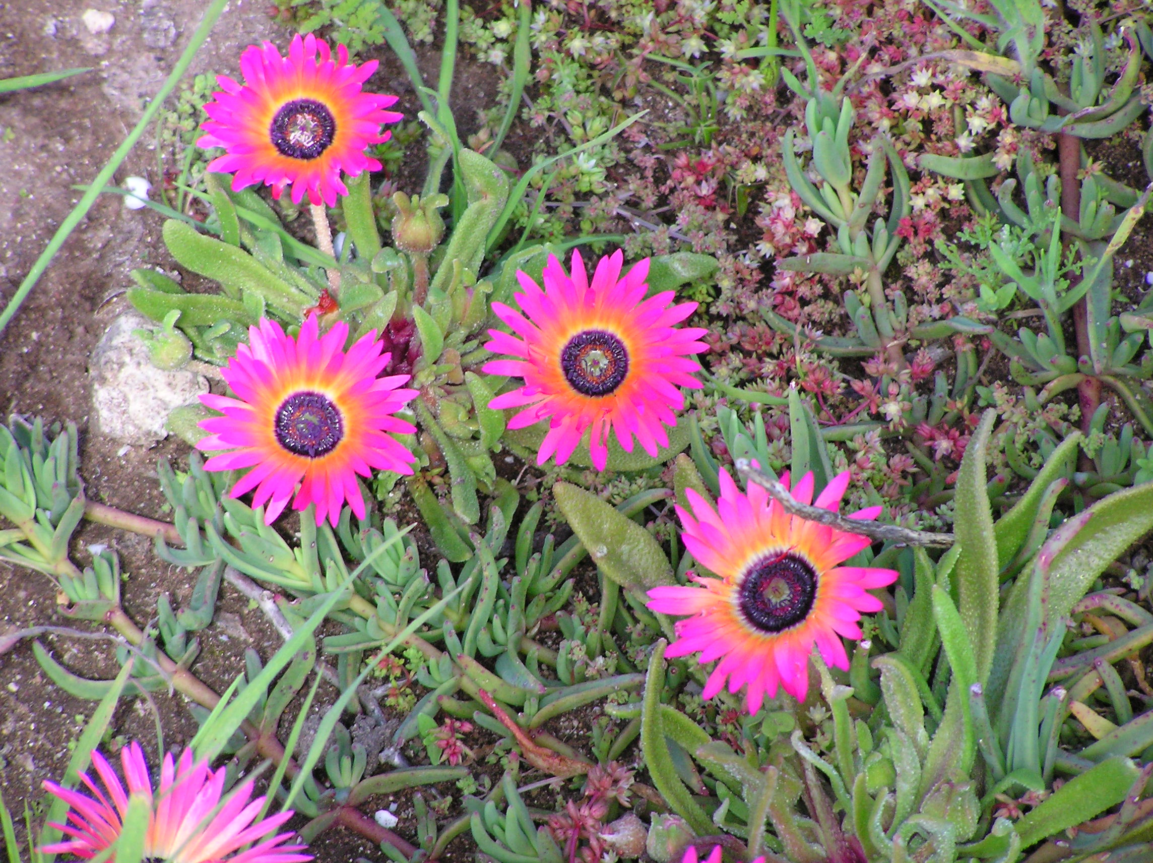 Narrow Leaf Bokbaaivygie, (Dorotheanthus apetalus (L.f.) .), West Coast National park, Western Cape, South Africa